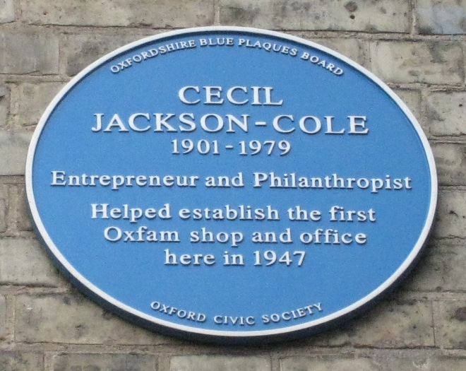 Blue plaque attached to the first Oxfam shop, opened in December 1947. 17 Broad Street, Oxford, England.